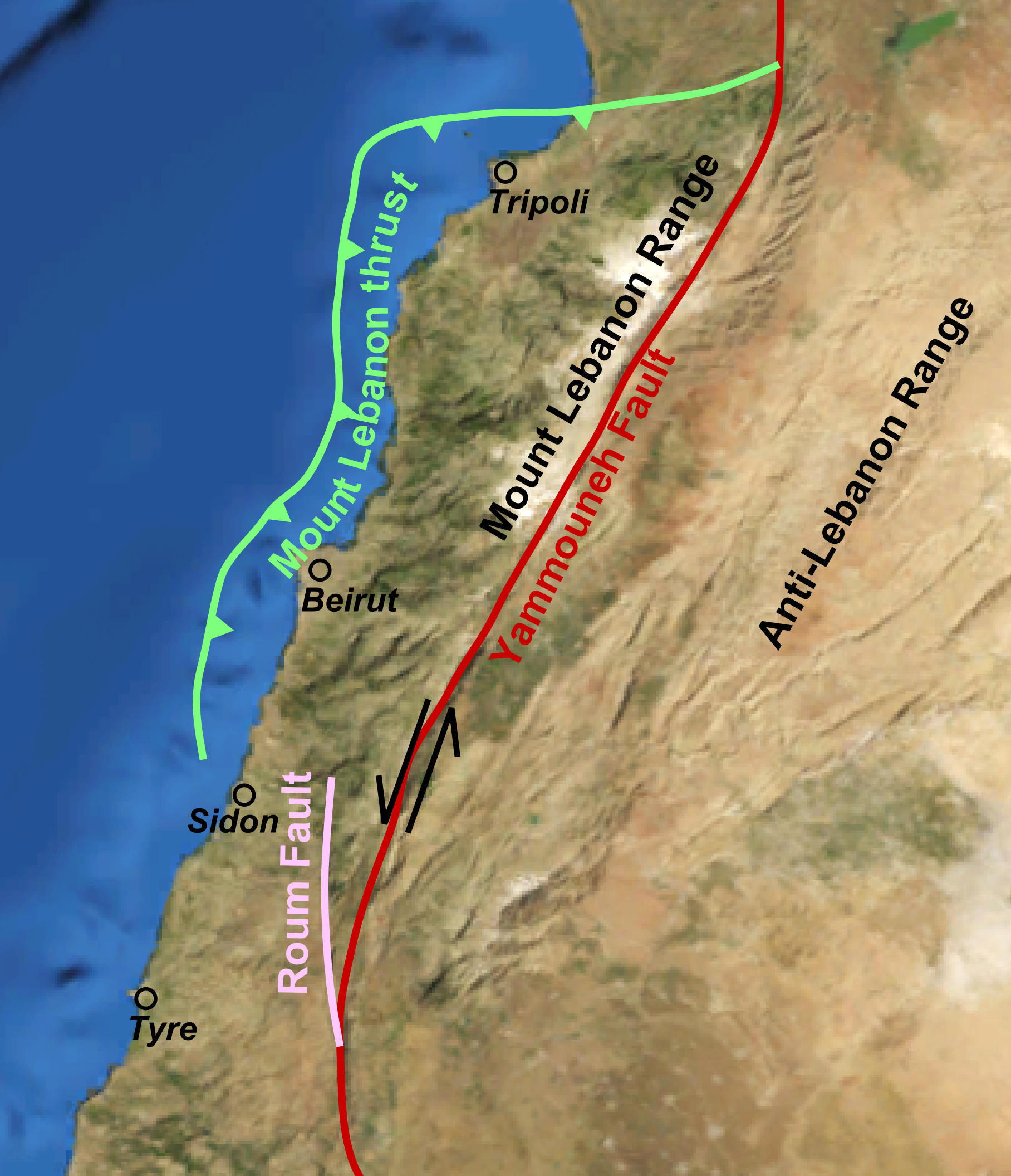 Map of the the main tectonic features in the coastal part of Lebanon, modified after Elias et al. 2007 [1]